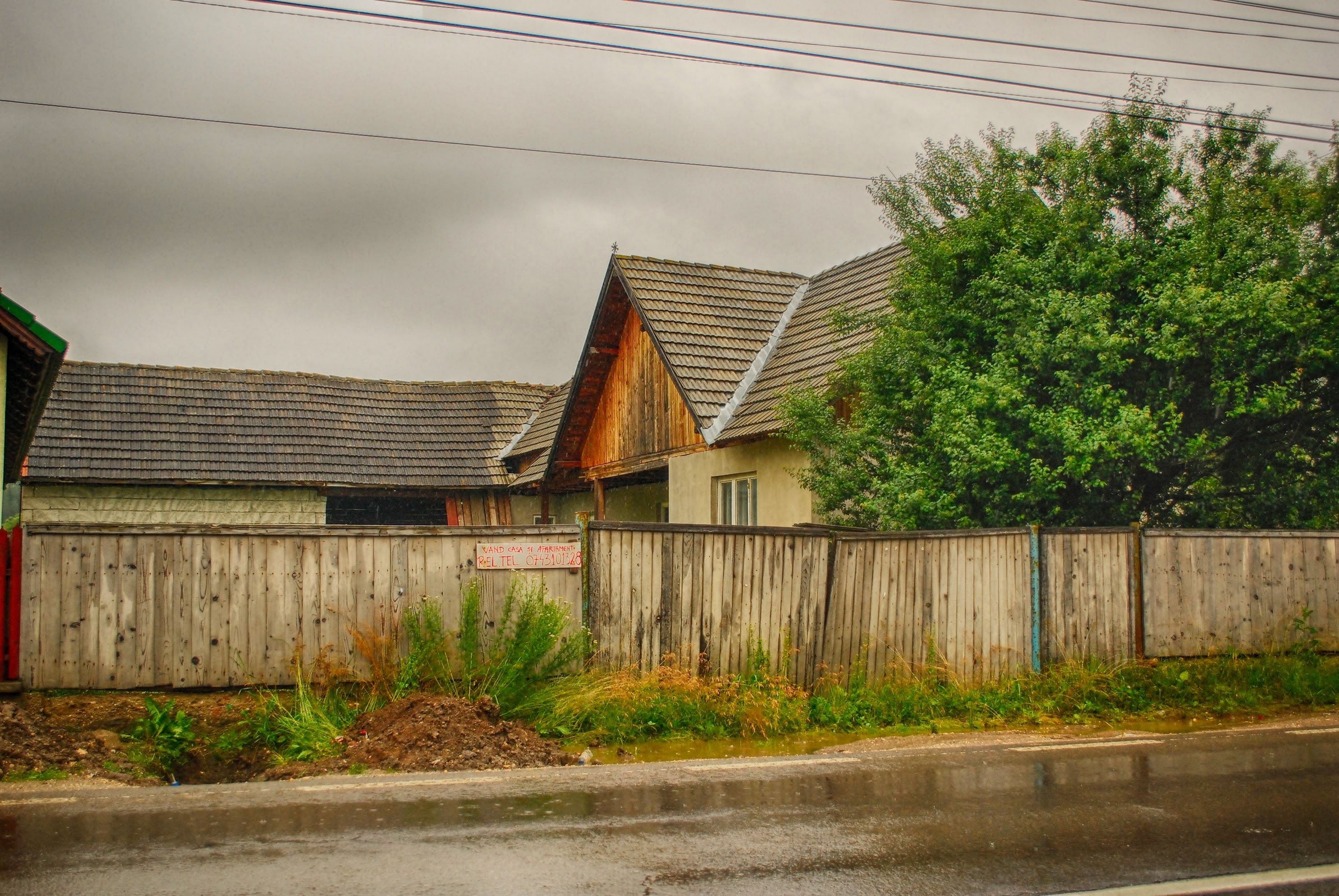 Wooden house a Mihai Viteazul street no. 87 in Întorsura Buzăului, Covasna County, RomaniaRomână: Casă de lemn din strada Mihai Viteazul nr. 87, Întorsura Buzăului, județul Covasna, România